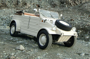 Intermeccanica Kubelwagen